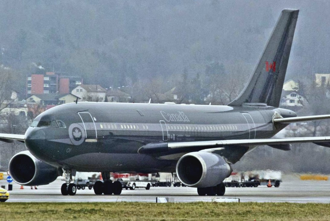 First flight: December 17, 1987...(c/n 446) 23/02/1988 Wardair Canada C-GBWD 15/01/1990 Canadian Airlines C-GBWD 01/01/1993 Canadian Air Force 15001